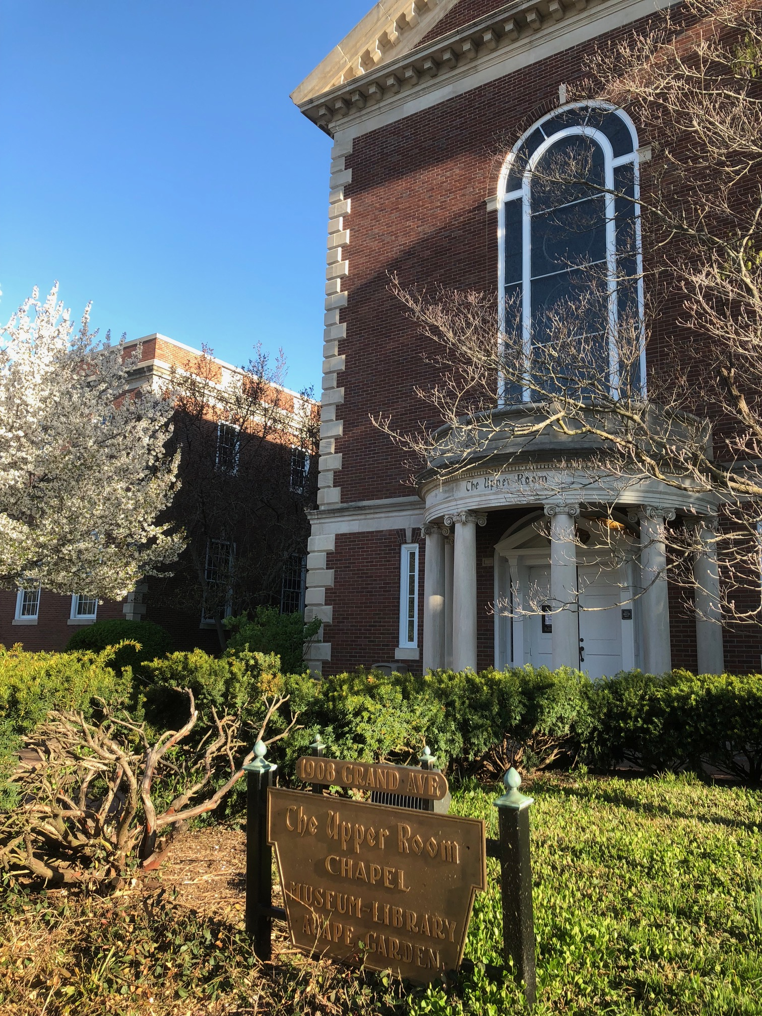 The Upper Room Chapel entrance